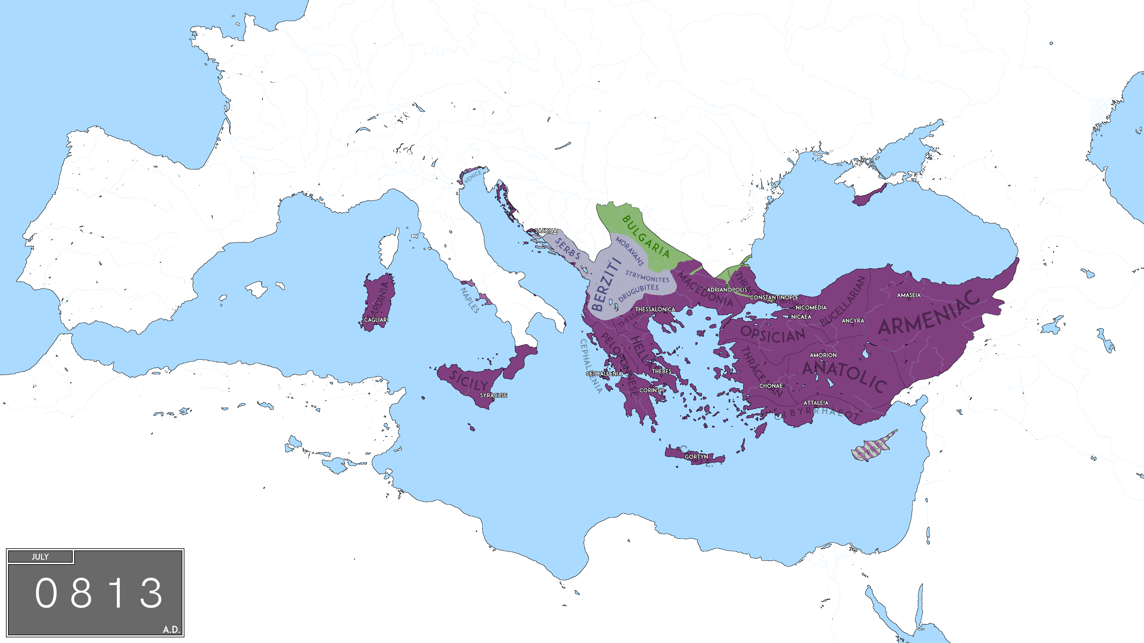 Map of The Eastern Roman Empire under The Nikephorian Dynasty.